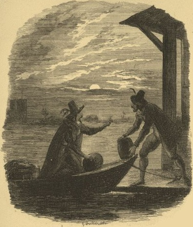 Guy Fawkes and Robert Catesby Loading the Gunpowder. Made by George Cruikshank (1792-1878).